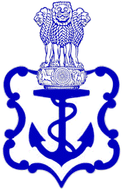 Indian Navy Emblem